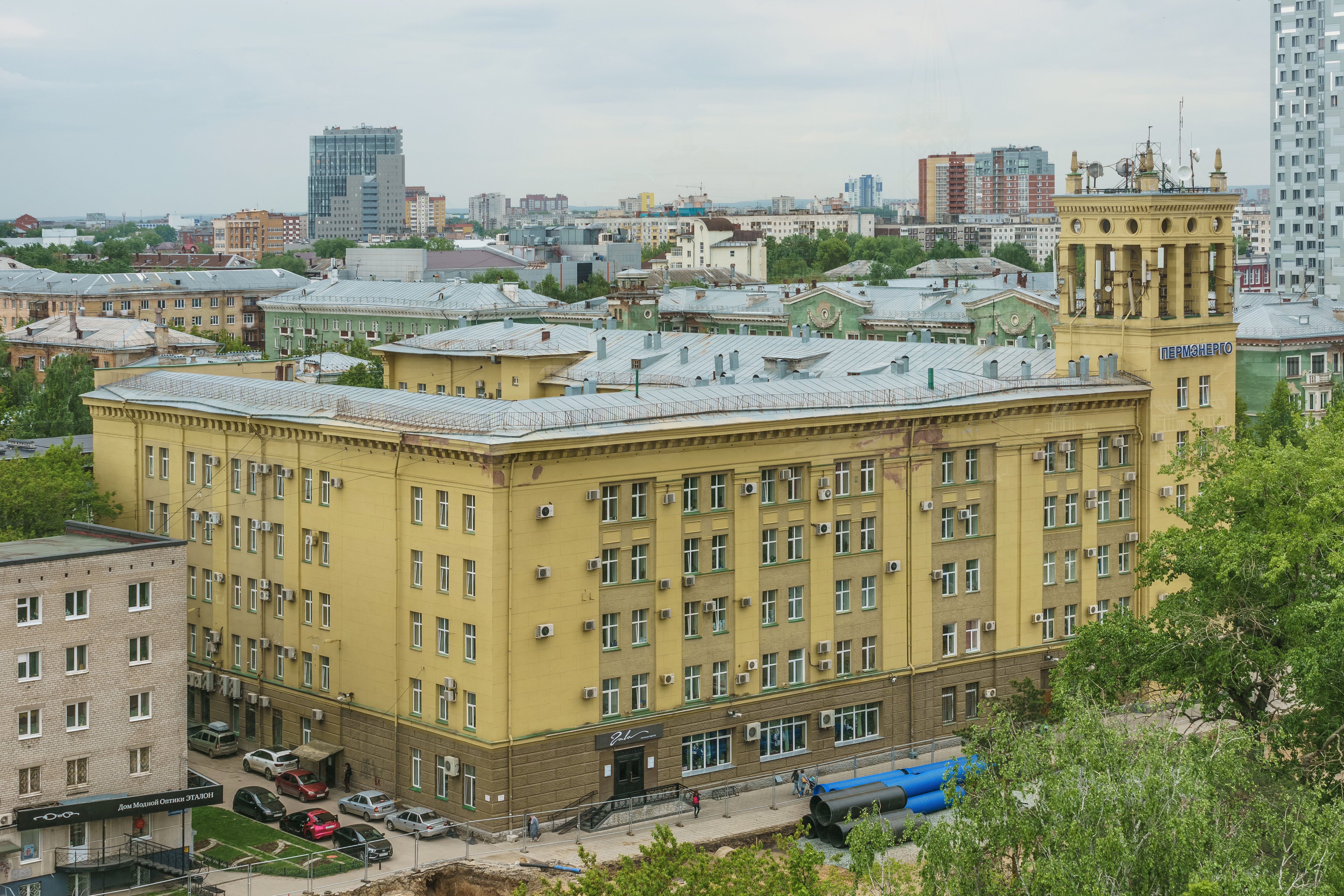 View from Gorky Park Ferris wheel in Perm, Russia